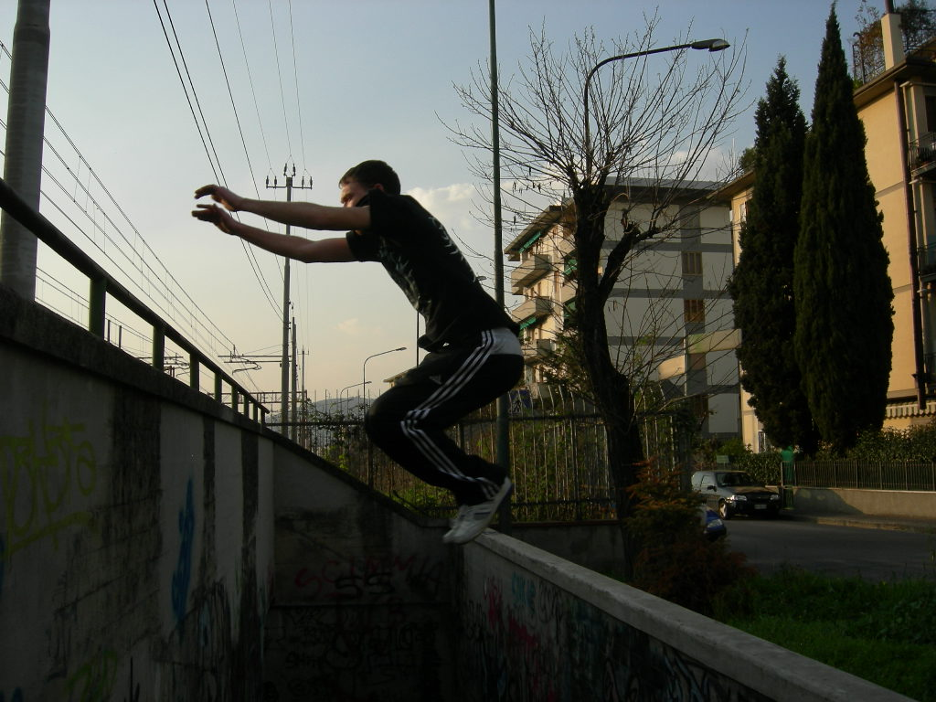 Parkour